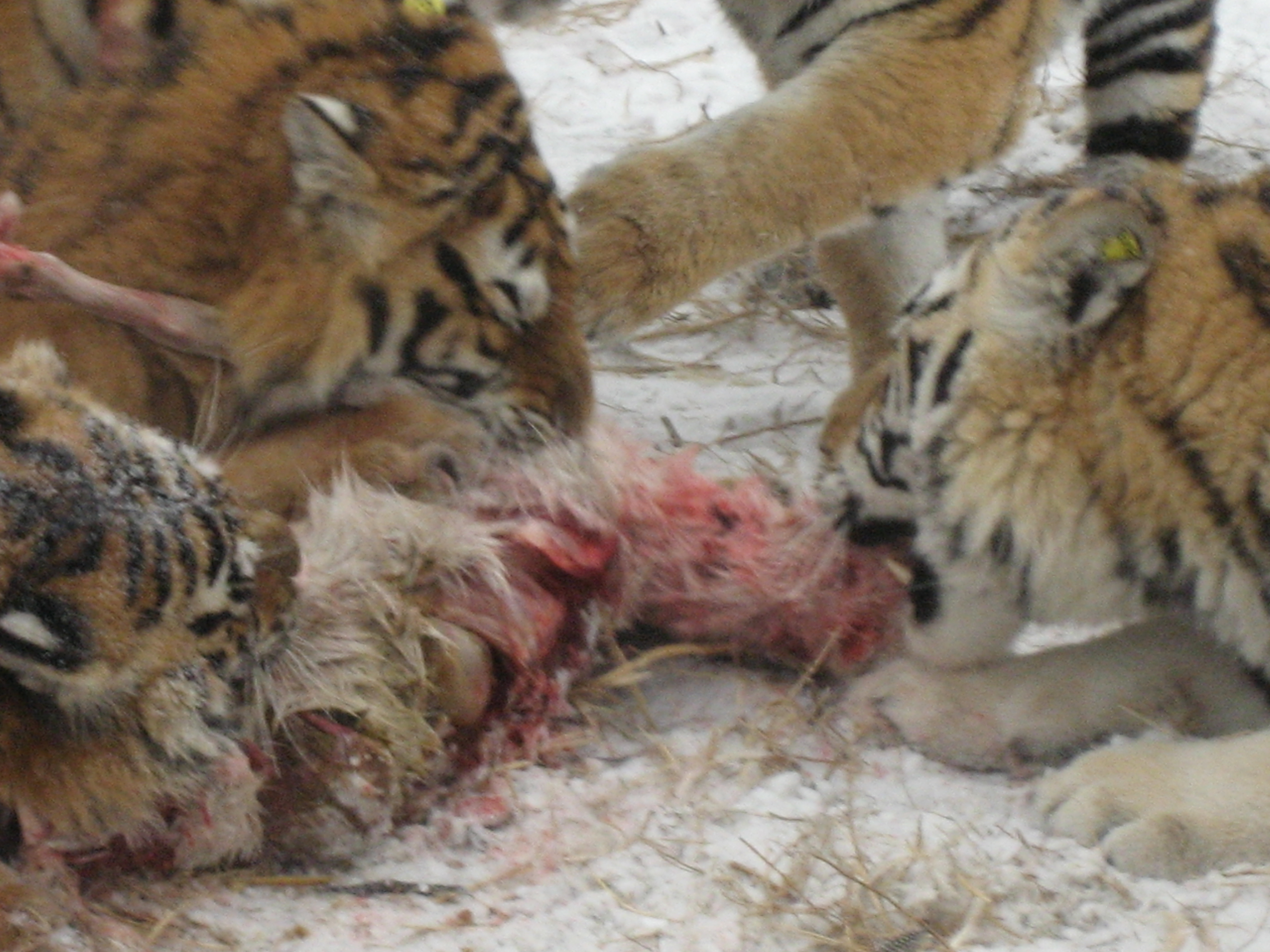 Harbin Siberian Tiger Park